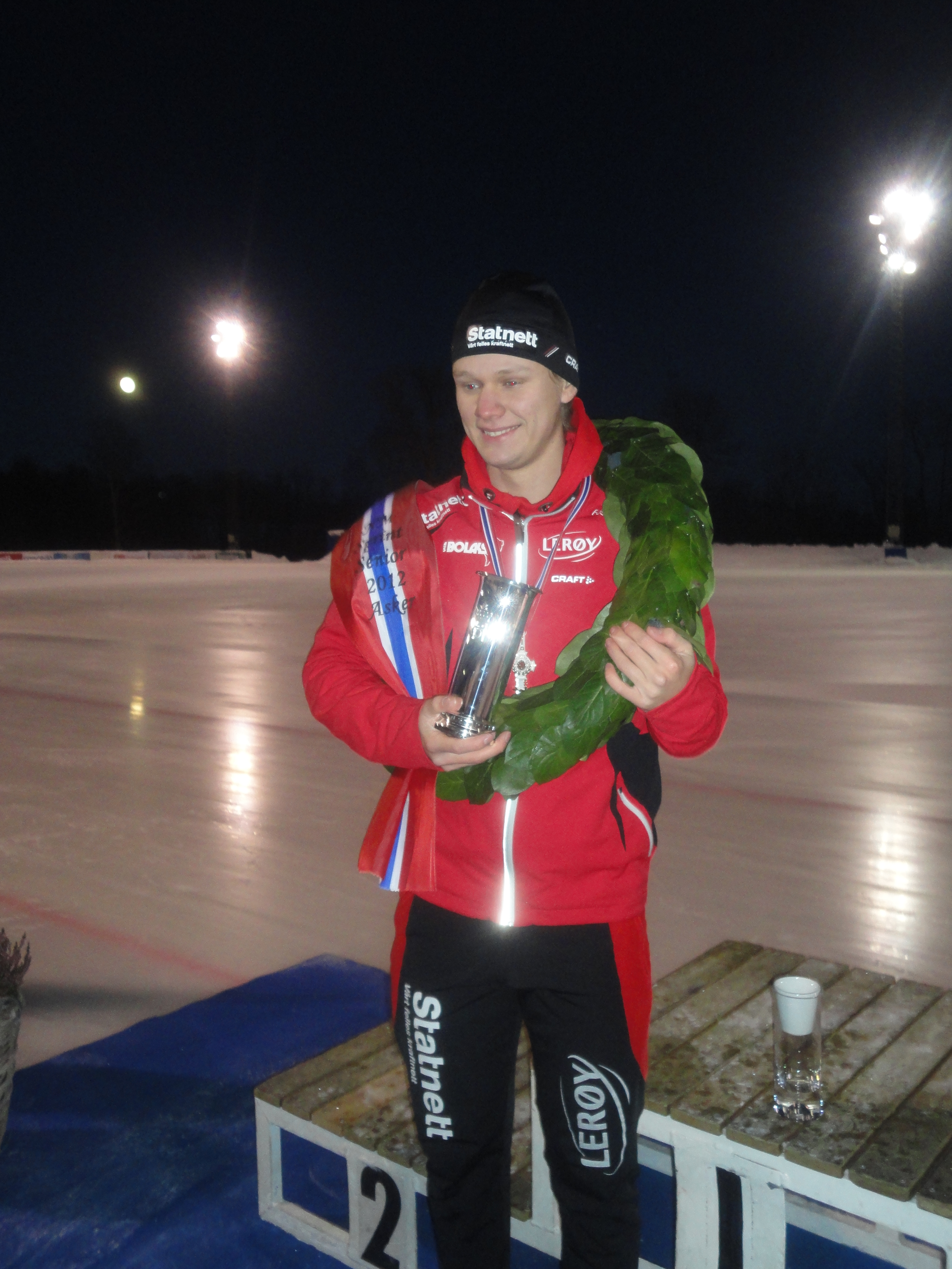 Håvard Holmefjord Lorentzen with laurel wreath and Kongepokal after victory in the National Sprint Championship 2012 in Asker.